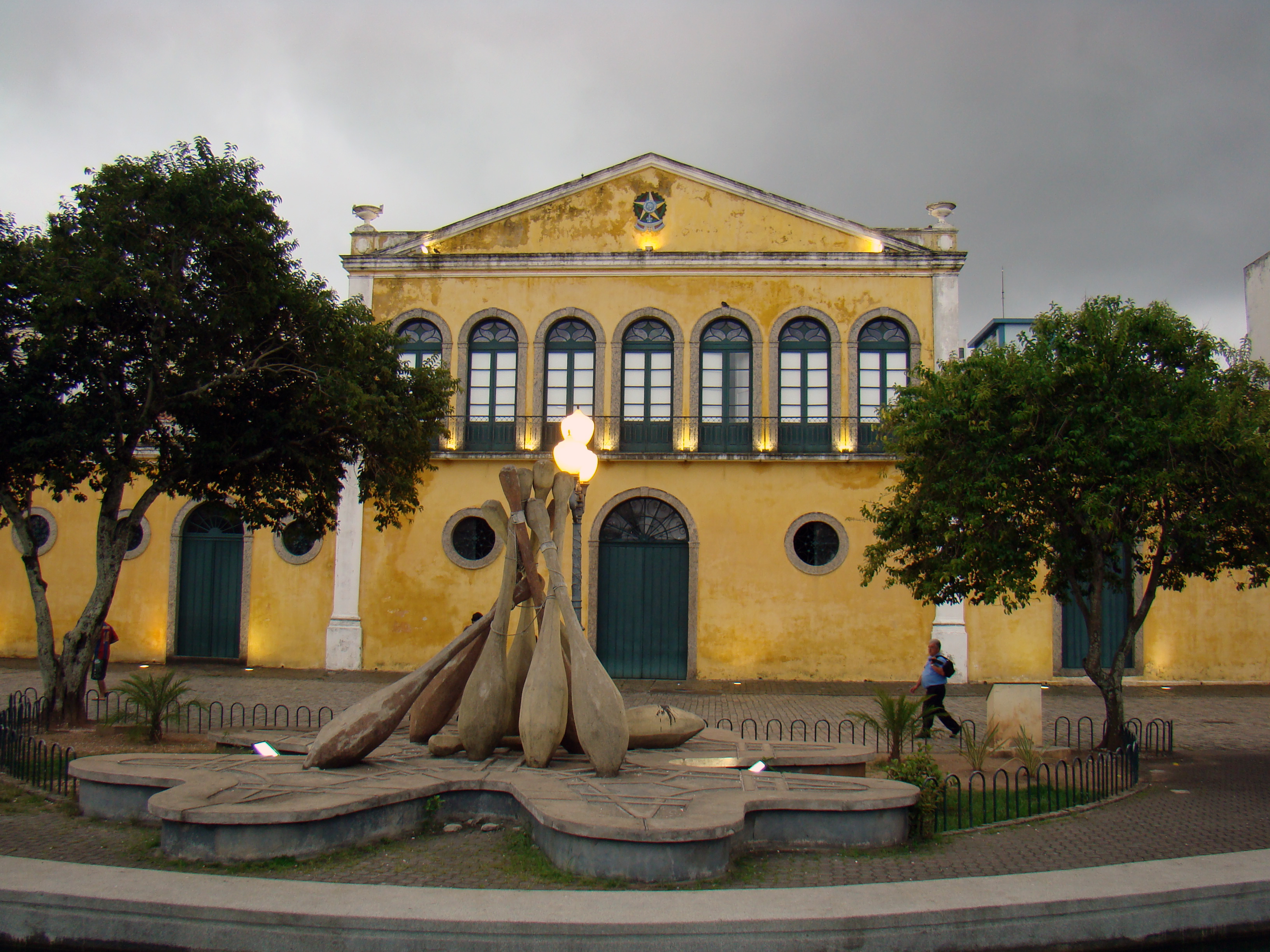 Customhouse. Florianópolis, Santa Catarina, Brazil..